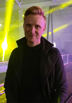 Owain Wyn Evans at outside broadcast